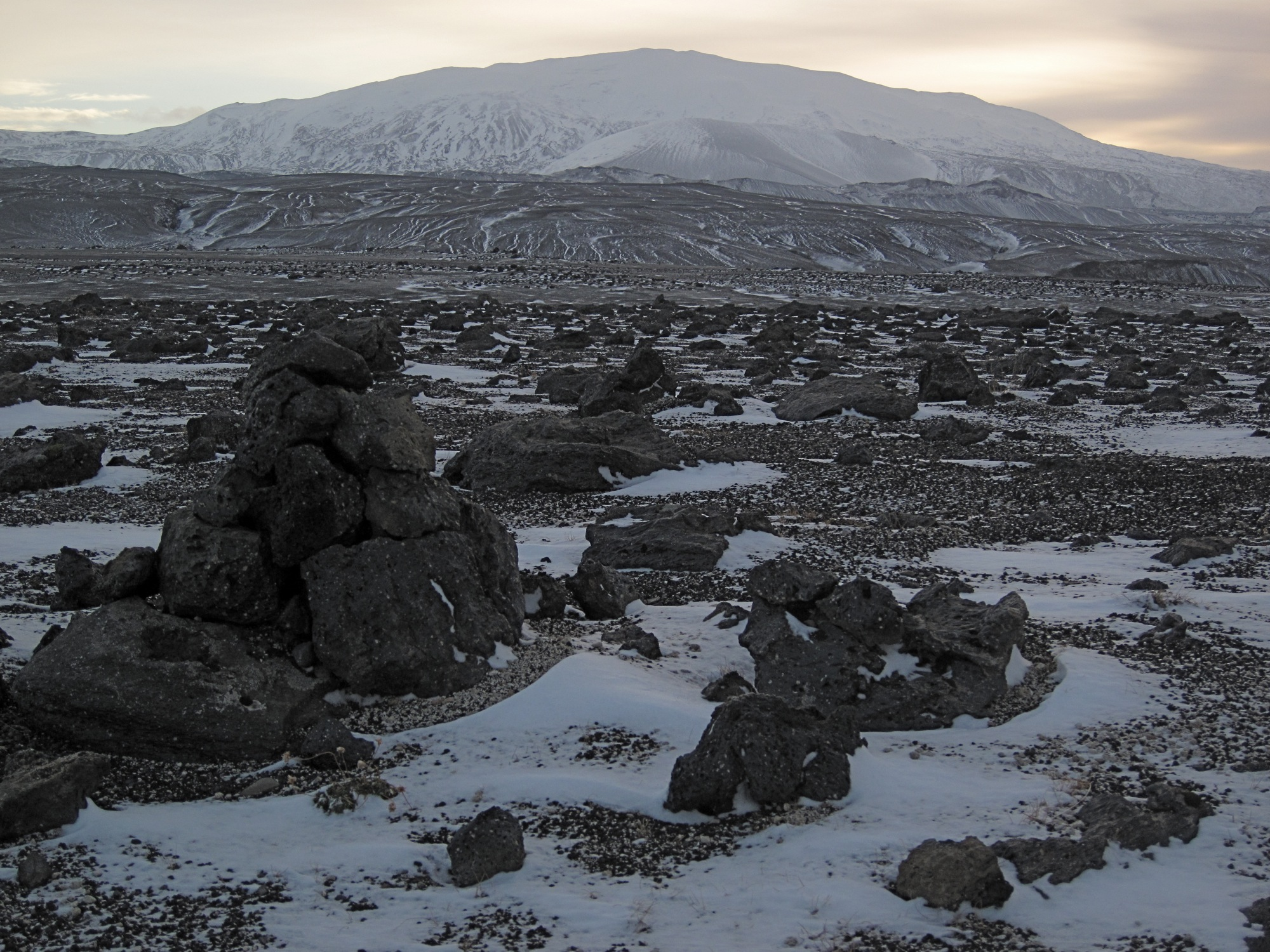 cairns on a volcanic landscape with Hekla in the background